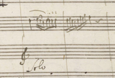 Measures 81 to 82 (the opening solo) from the first movement of Mozart's Piano Concerto No. 26, K. 537 in the autograph manuscript, illustrating the incomplete left-hand part for the piano.